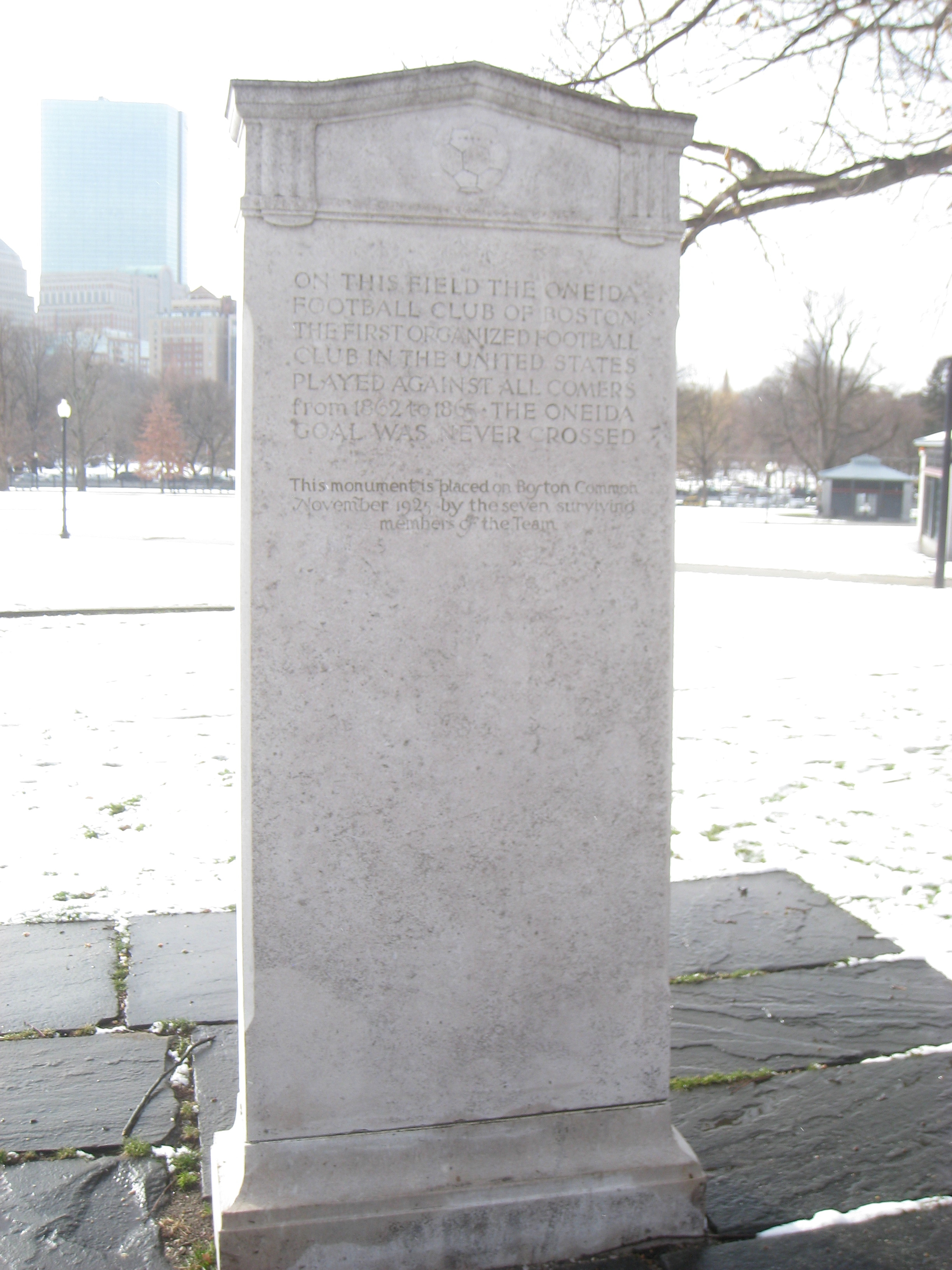 Granite table remembering Oneida Football Club from Boston, considered the first football team in the United States. The tablet, placed at Boston Common, reads "On this field the Oneida Club of Boston, the first organized football club in the United States, played against all comers from 1862 to 1865 - The Oneida goal was never crossed." The names of team members are inscribed on the other side of the tablet. The memorial was unveiled at Boston Common on November 21, 1925, with the surviving members of the team present.